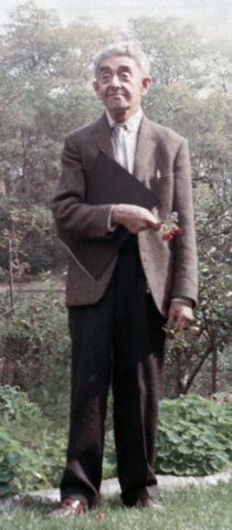 Hugo Kauder holding a flower and files. No other information known.